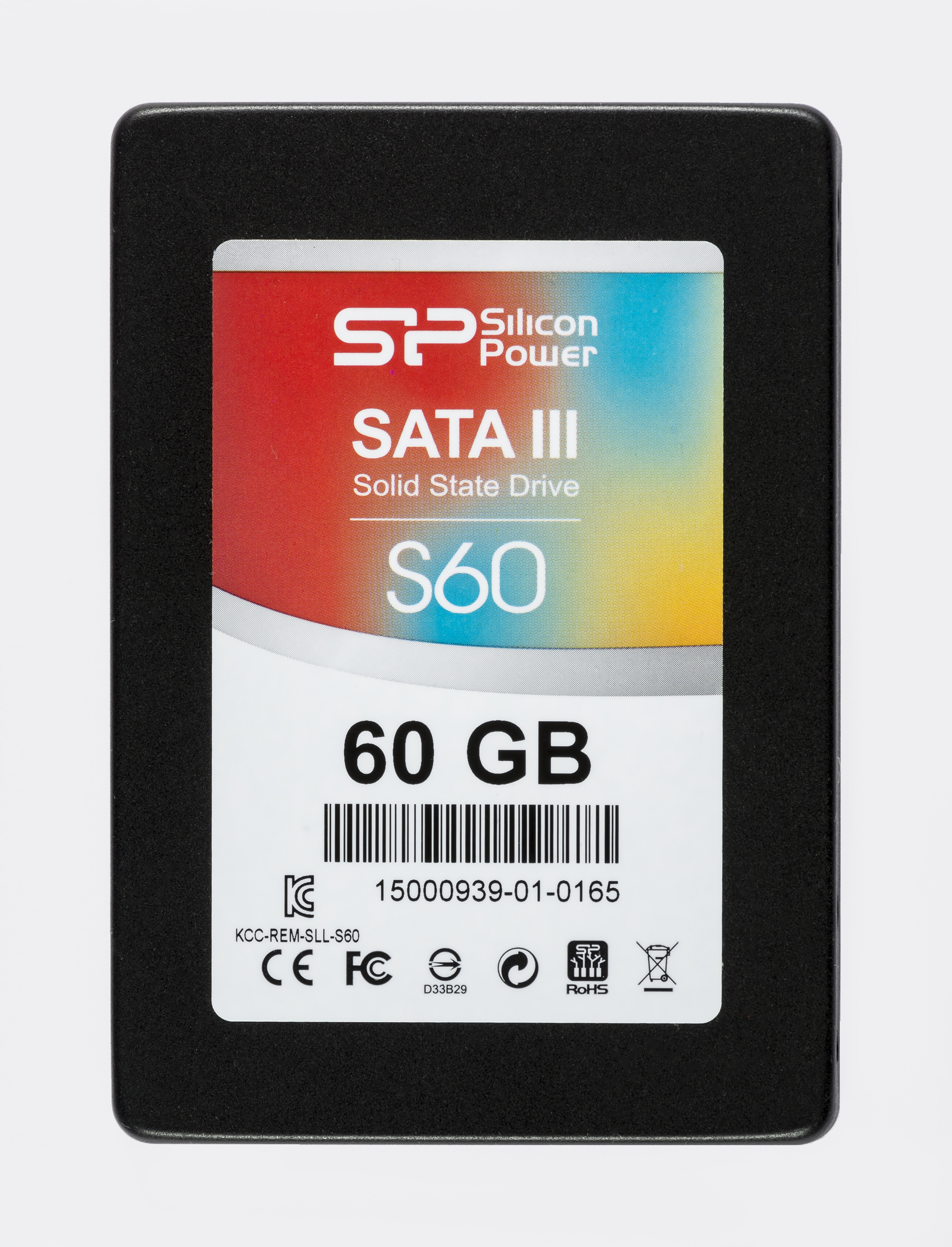 SSD Silicon Power S60 60GB